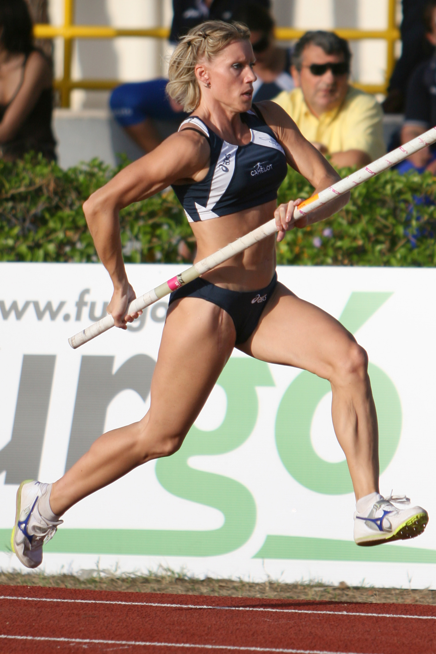 A picture of Arianna Farfaletti Casali during a competition in Palermo (Italy)